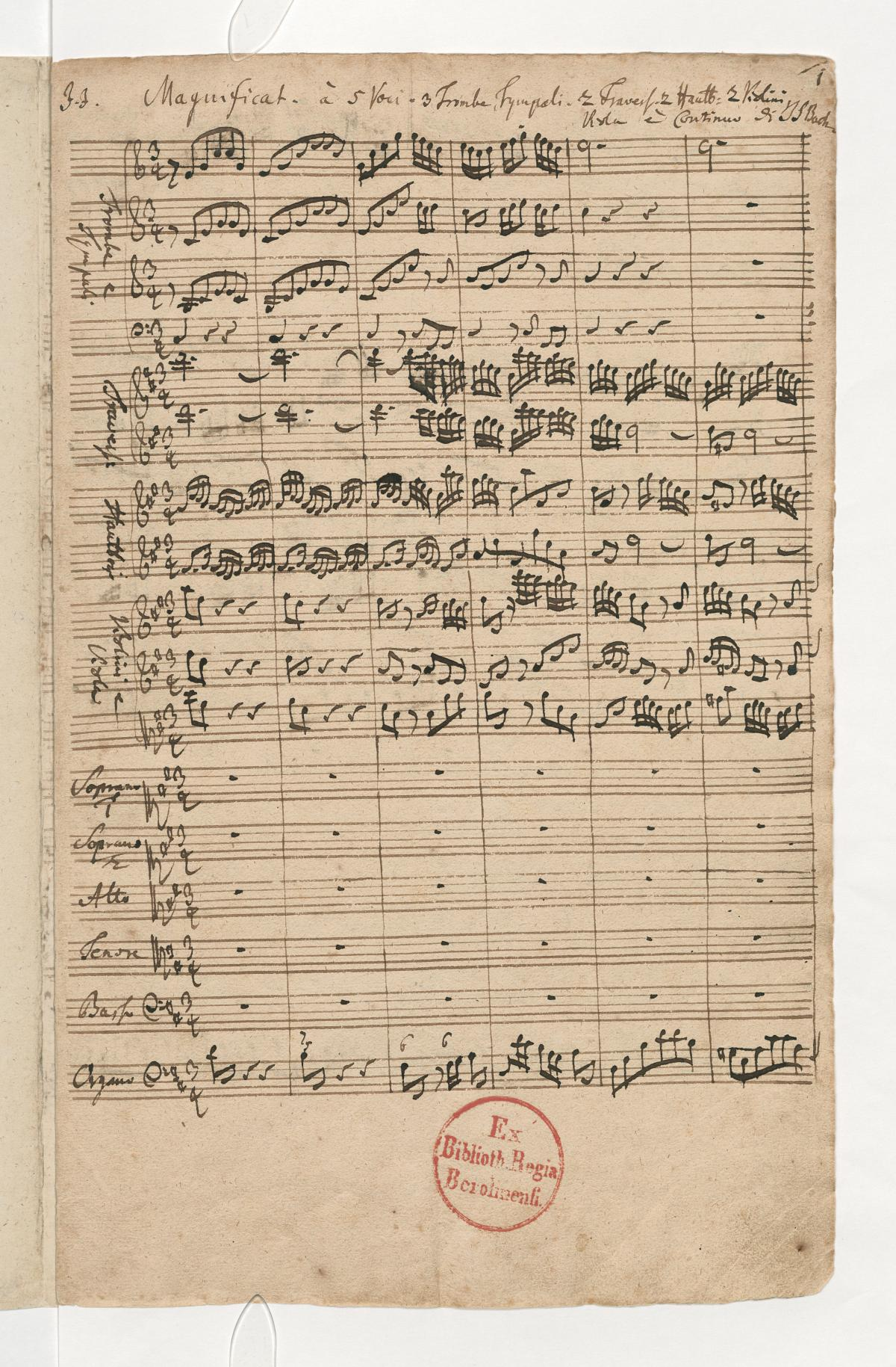 J. S. Bach, autograph of the Magnificat in D Major, BWV 243. First page of the first movement "Coro". Written 1732-1735 (1733?). Staatsbibliothek zu Berlin - Preußischer Kulturbesitz, Duitsland.